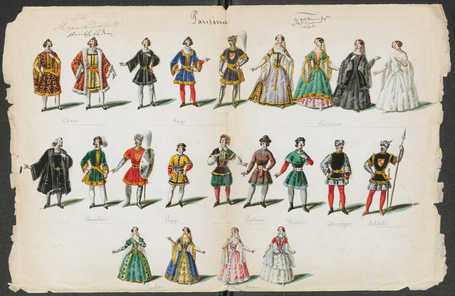 Gaetano Donizetti - Parisina - costumes of a performance in the Teatro Nuovo, Naples, 1841-1860